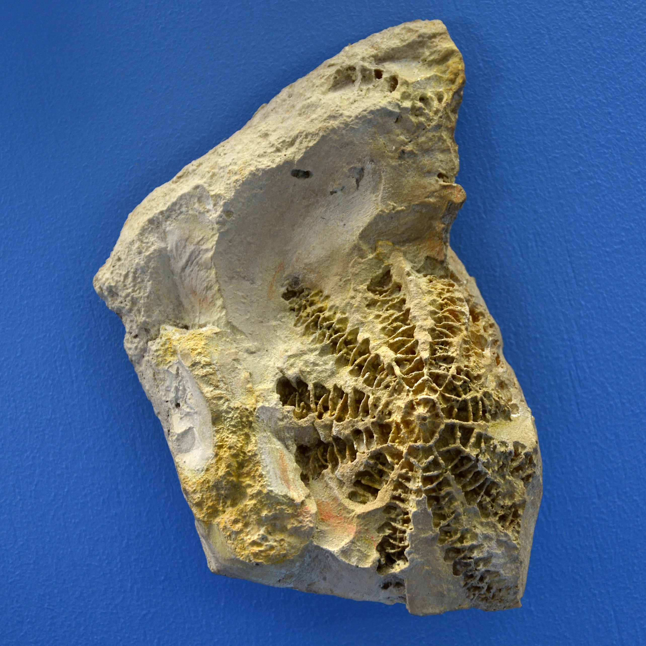 Fossil Crinoidea ( solanocrinites costatus ), Naturhistorisches Museum, Basel.